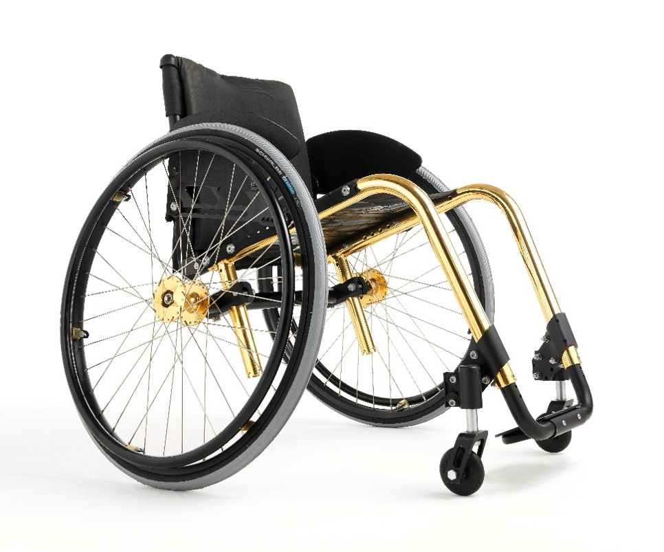 The first wheelchair in momotube design / open frame design manufactured by Küschall AG